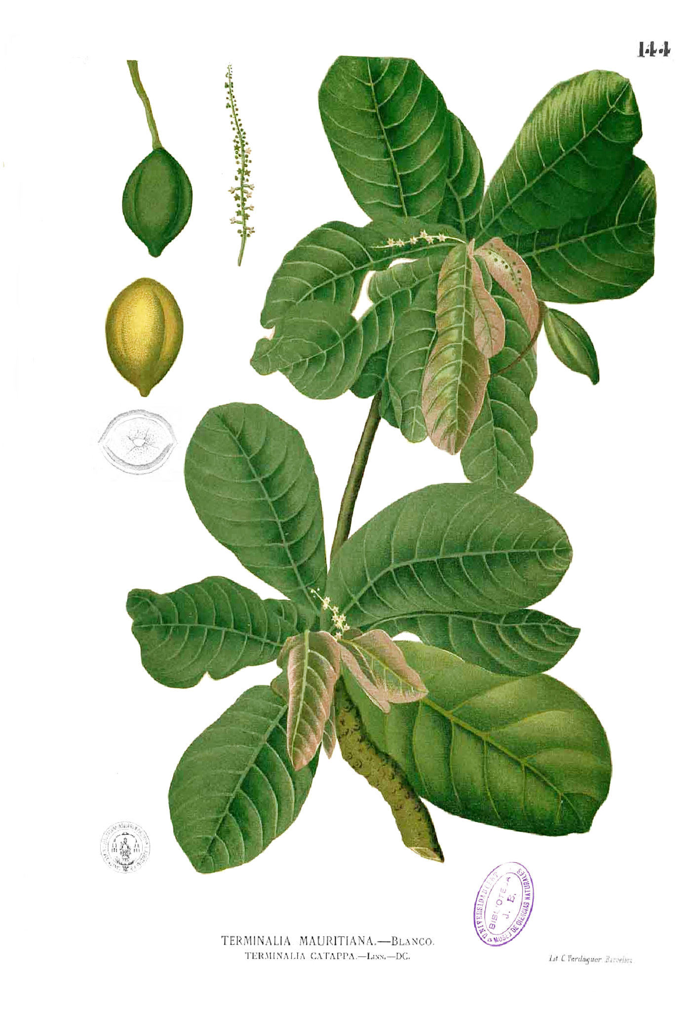 Plate from book